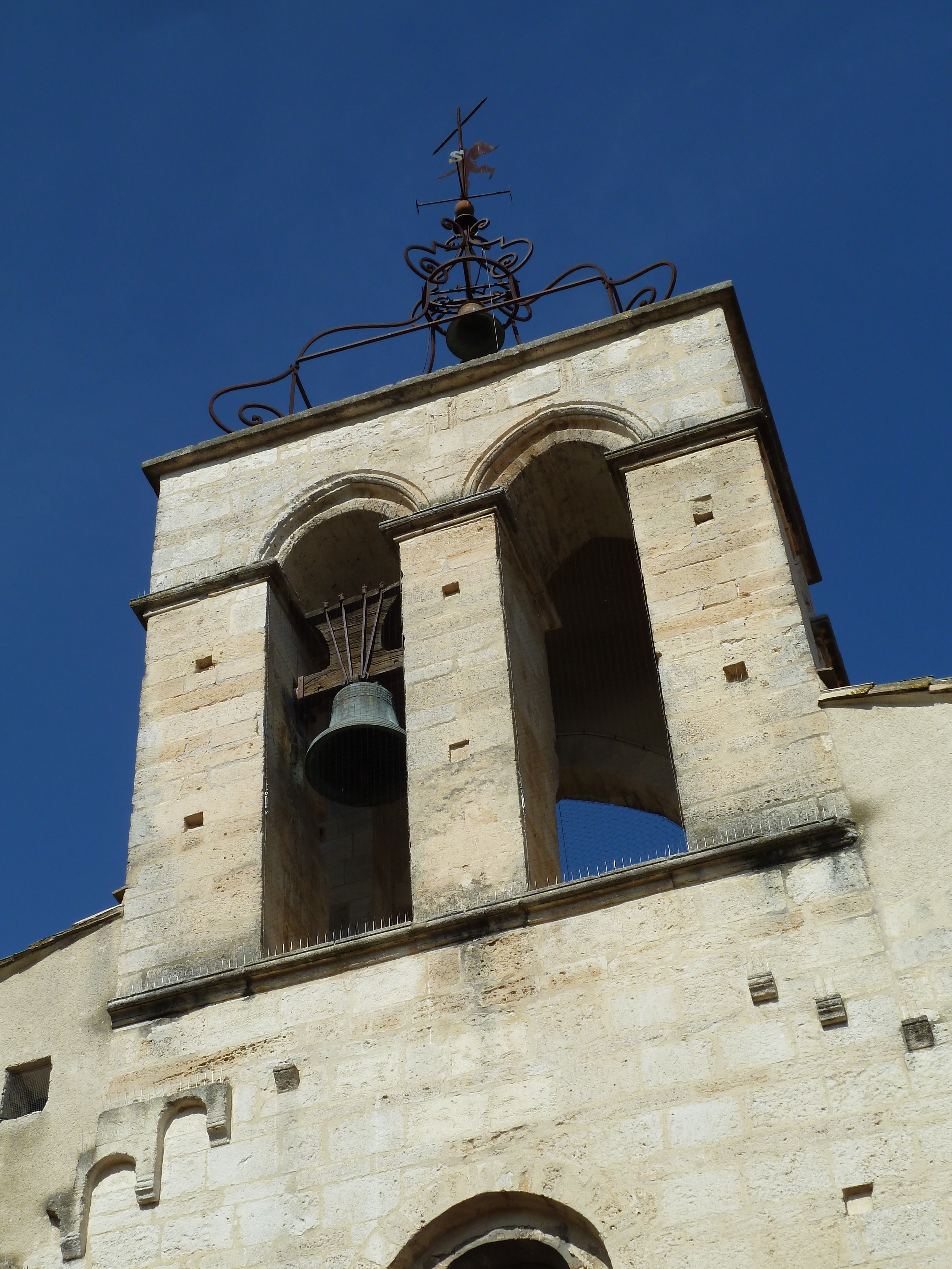 Church of Saint-Jean-Baptiste in Castelnau-le-Lez (vicinity of Montpellier, France). West side. Belltower.